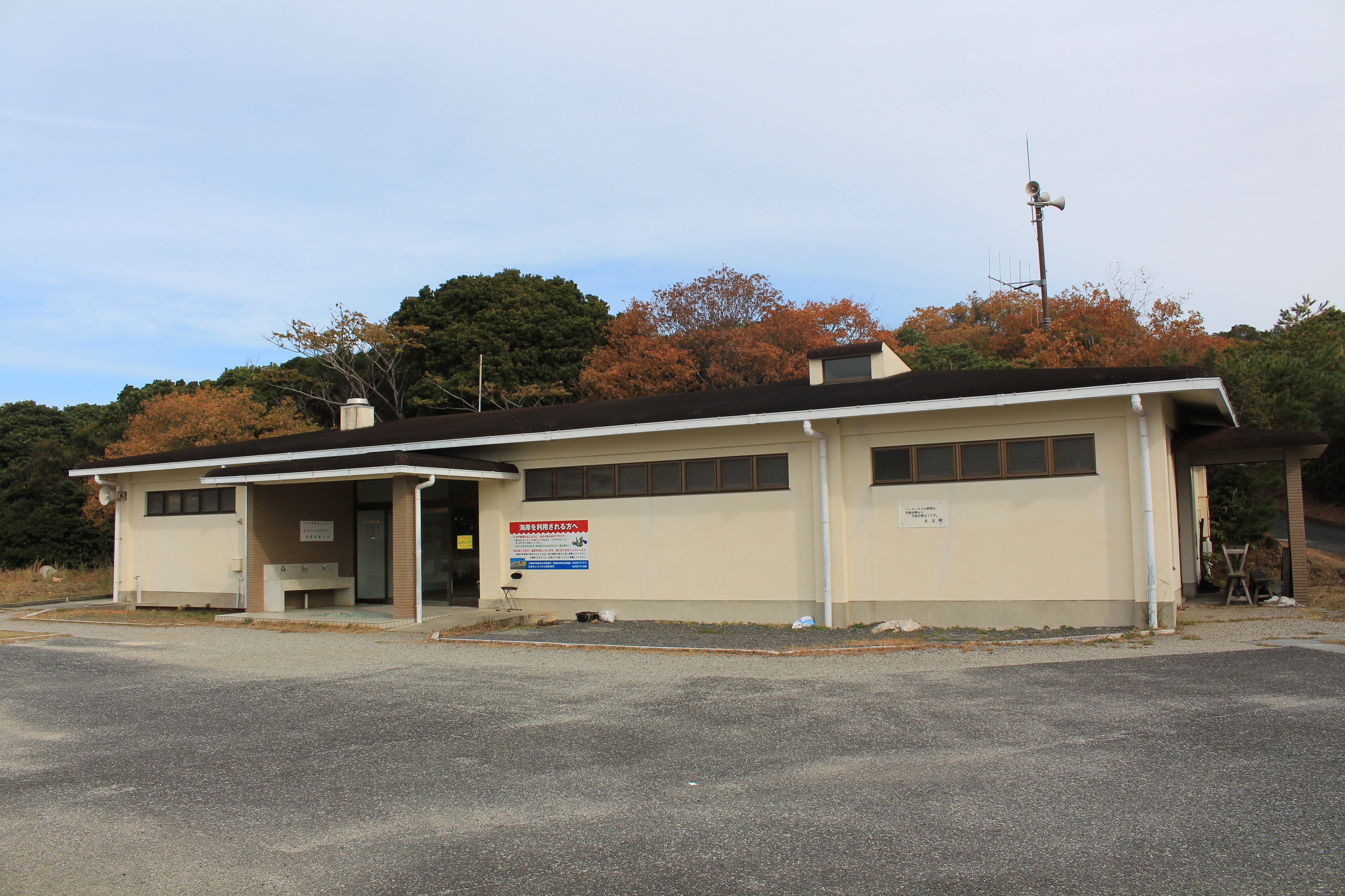 Berth house of Jirōrokurō Beach in Ago Bay, Shima, Mie prefecture, Japan.